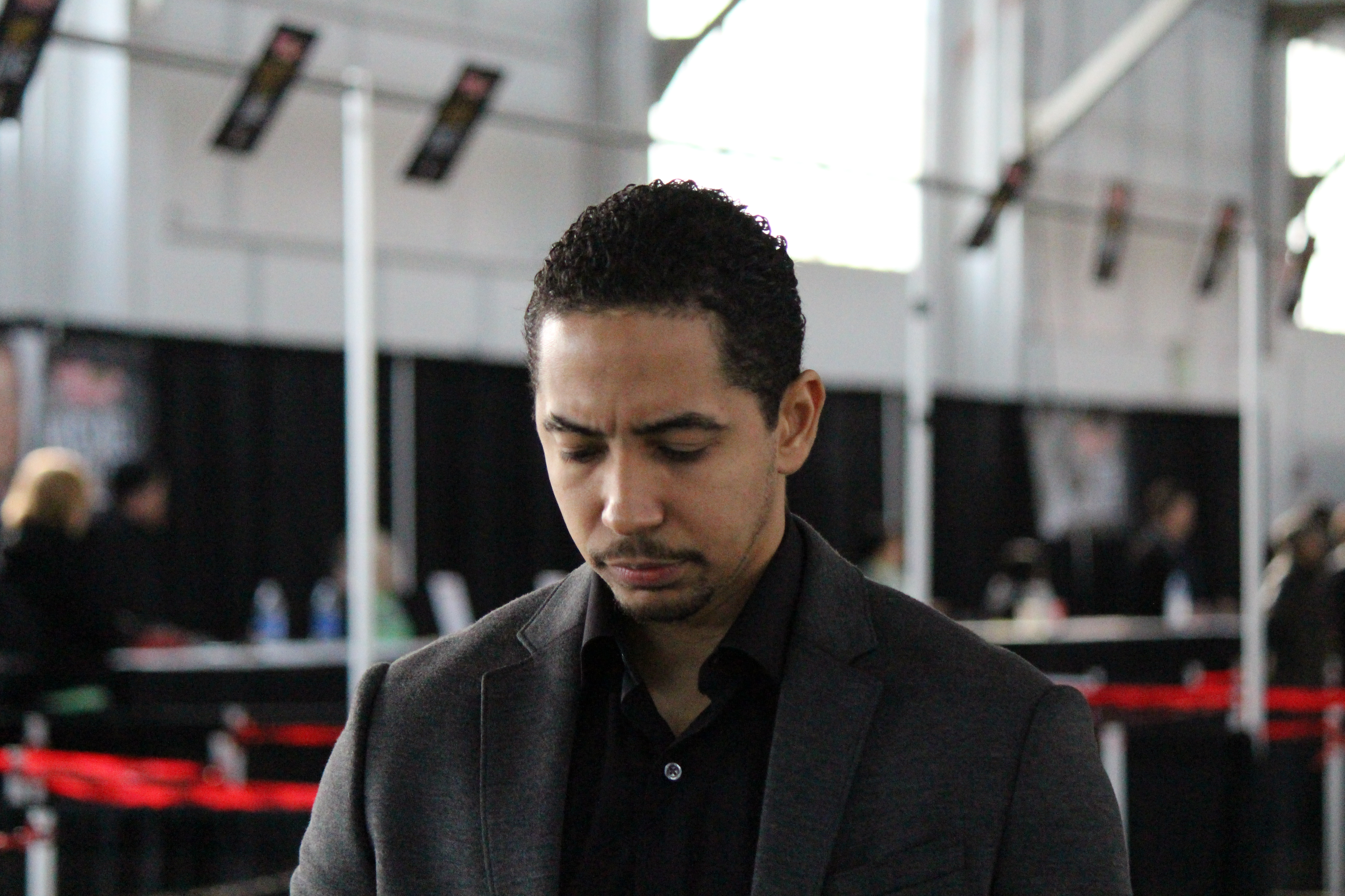 Neil Brown Jr.